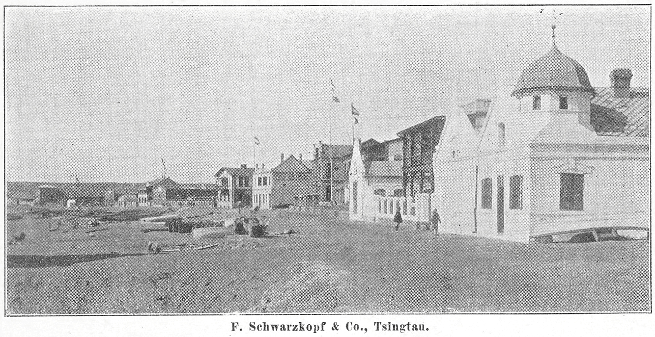 F.Schwarzkopf & Co., Tsingtau